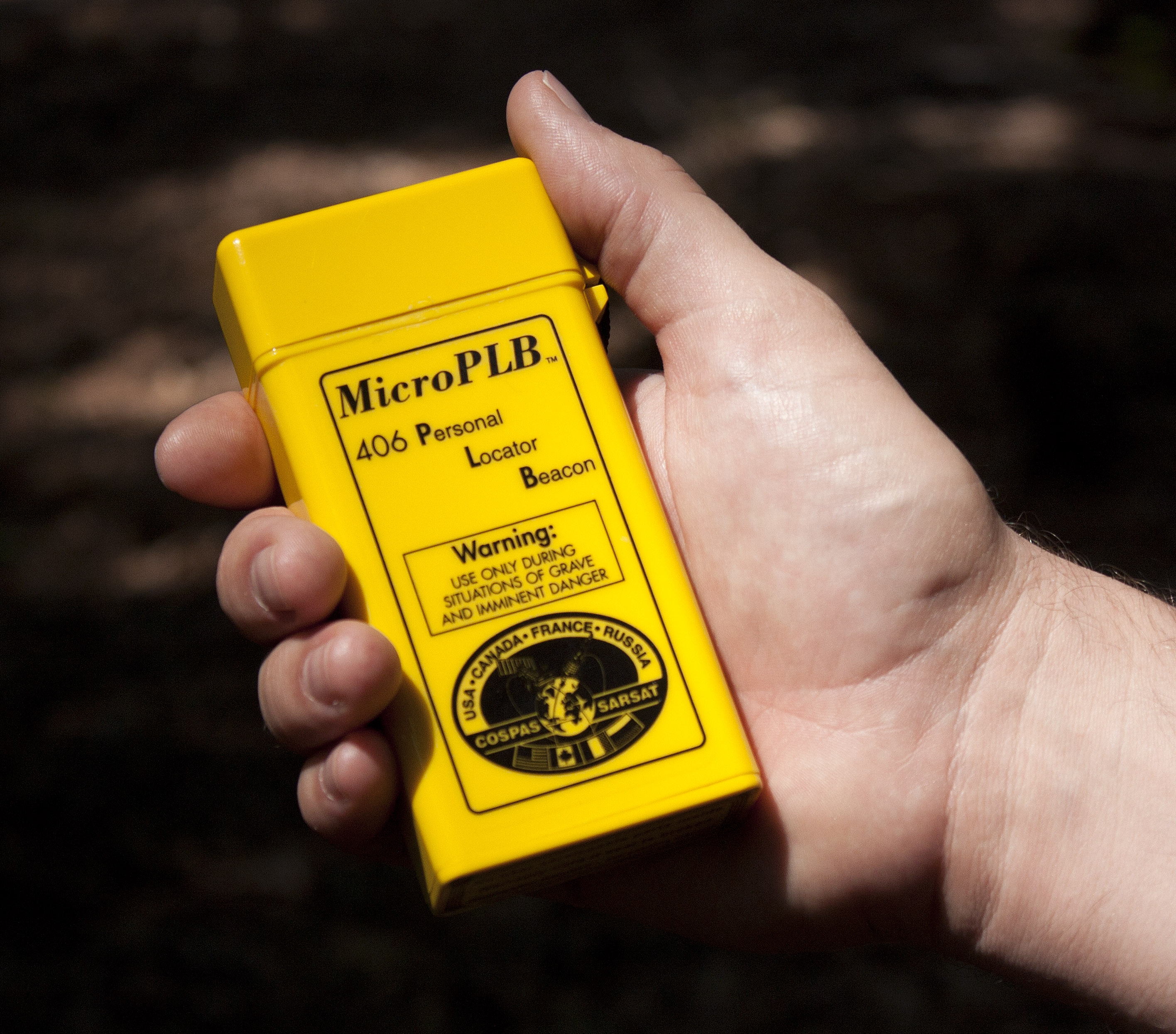 A MicroPLB Type GXL handheld device used to transmit distress signals — similar to the one Abby Sunderland was given by Microwave Monolithics Inc. (MMInc.)before her journey.